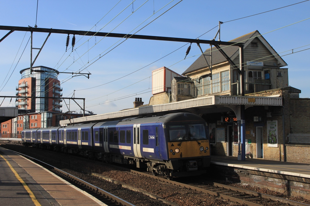 Greater Anglia's 360102 calls at Chelmsford with a northbound service on the Great Eastern Main Line.